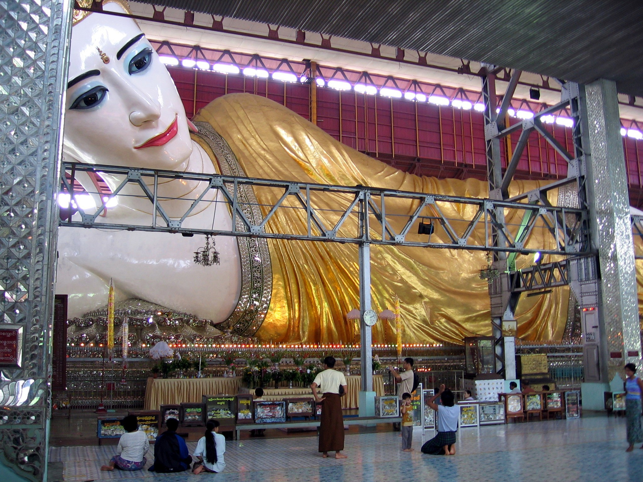 Chaukhtatgyi Paya is a pagoda located in Yangon, Myanmar. Inside there is a big reclined Buda.